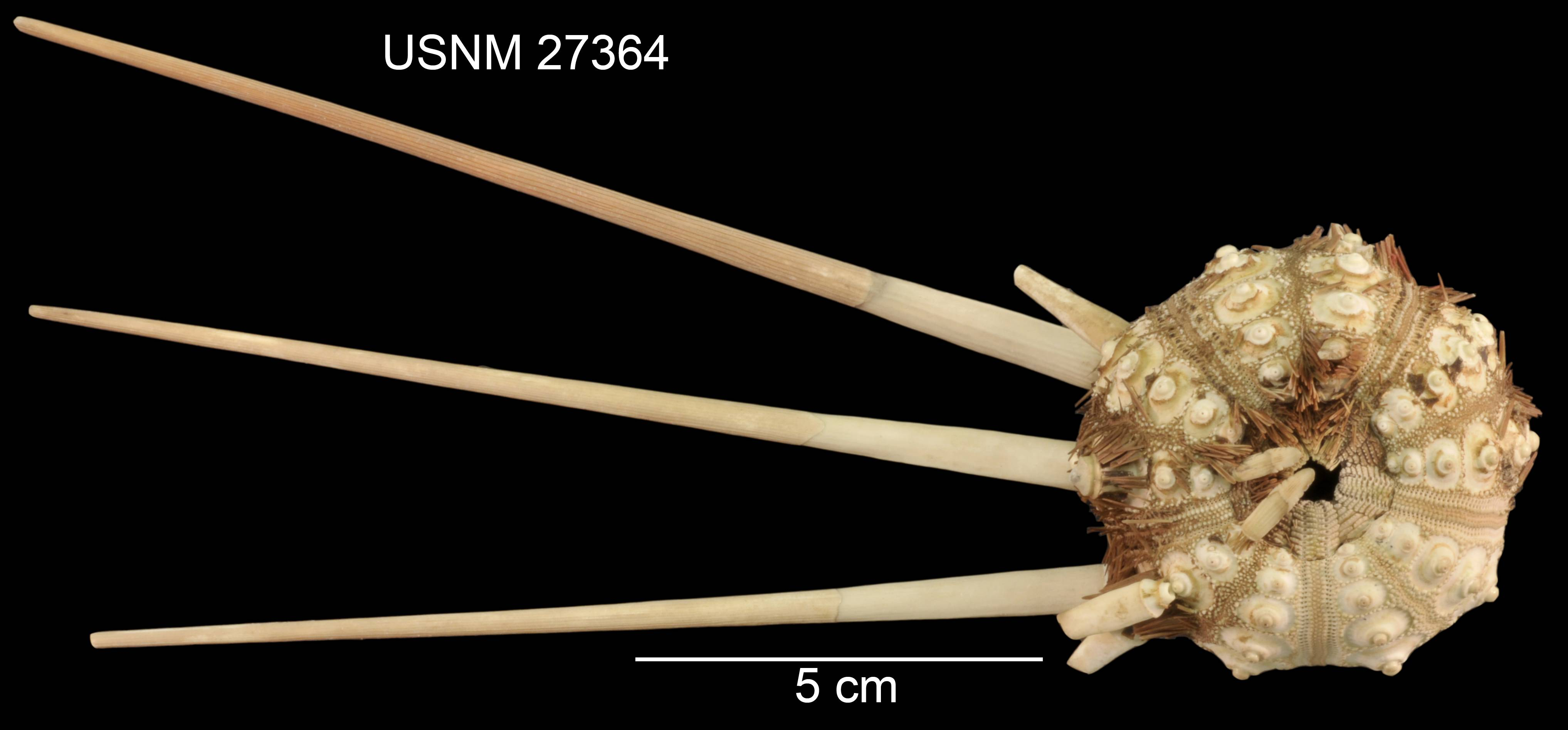 PRESERVED_SPECIMEN; Preparations: Dry; Acanthocidaris hastigera A.Agassiz & H.L.Clark, 1907; Individual count: 1; Type status: SYNTYPE; Identified by: Agassiz, Alexander E.; Clark, Hubert L.; Event date: 19020101T00:00:00Z; Additional description: Ventral